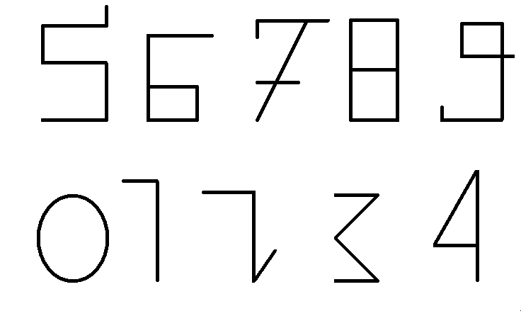 Arab numerals and the Arab sentence وهدَفي حسابْ.